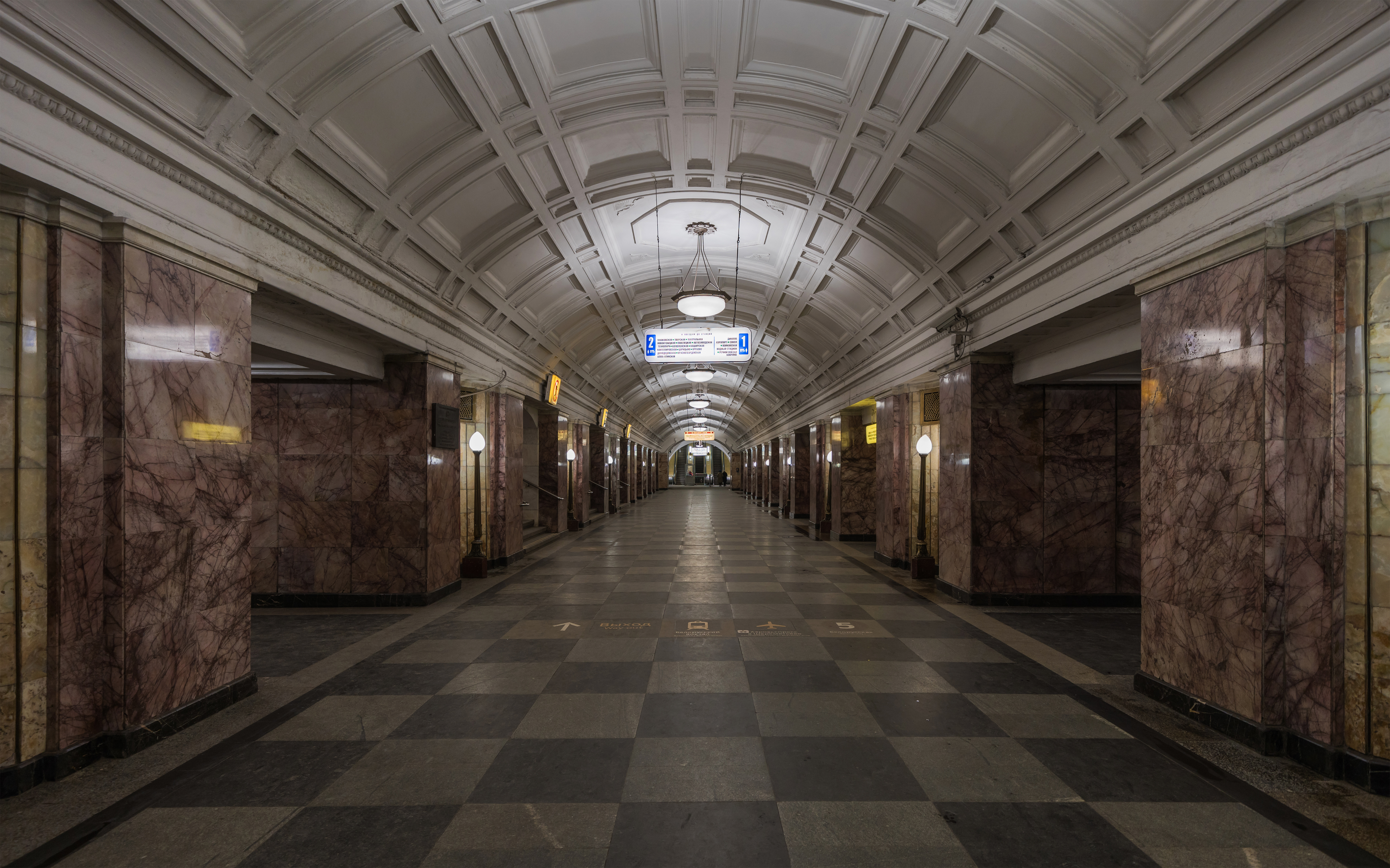 Belorusskaya (Green Line) metro station in Moscow